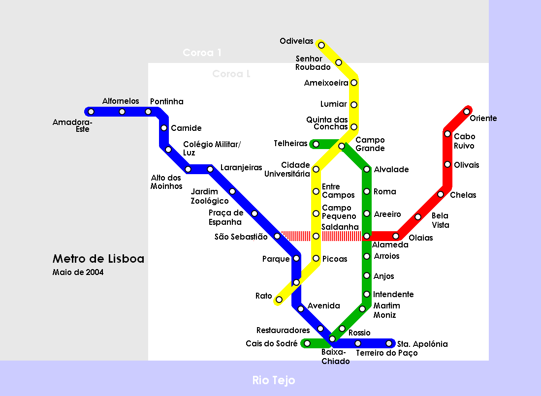 Map of the Lisbon Metro, December 2007